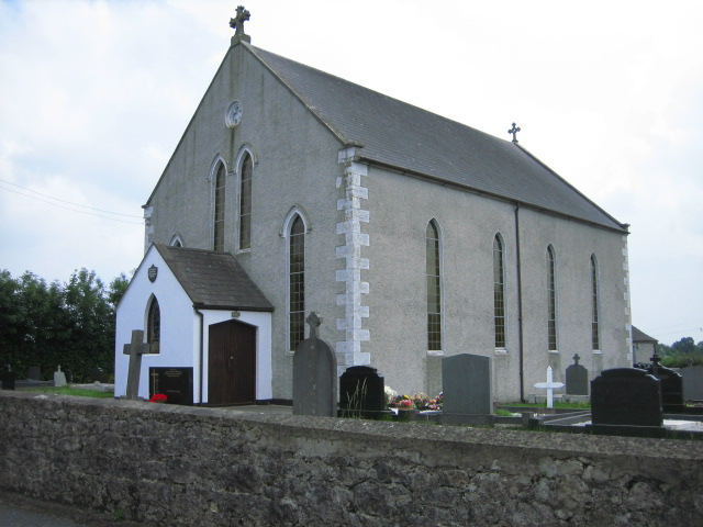 St Peter's Parish Church. Catholic church built in 1845.